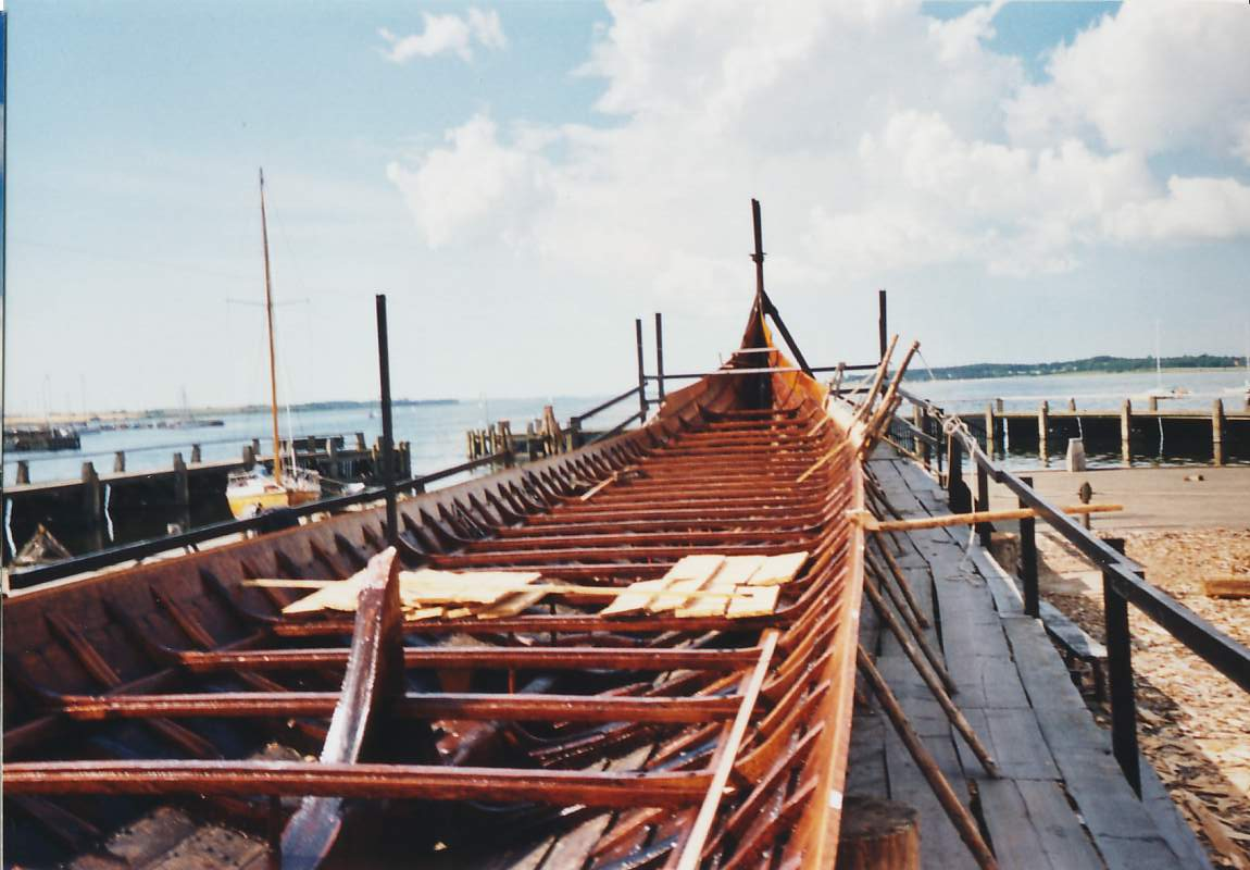 The reconstructed longship "Skuldelev 2" named "Havhingsten fra Glendalough" under construction at the shipyard in Roskilde in Denmark. Photo shows part of the inside of the ship.